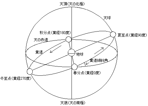 Explanation about a celestial sphere in Japanese